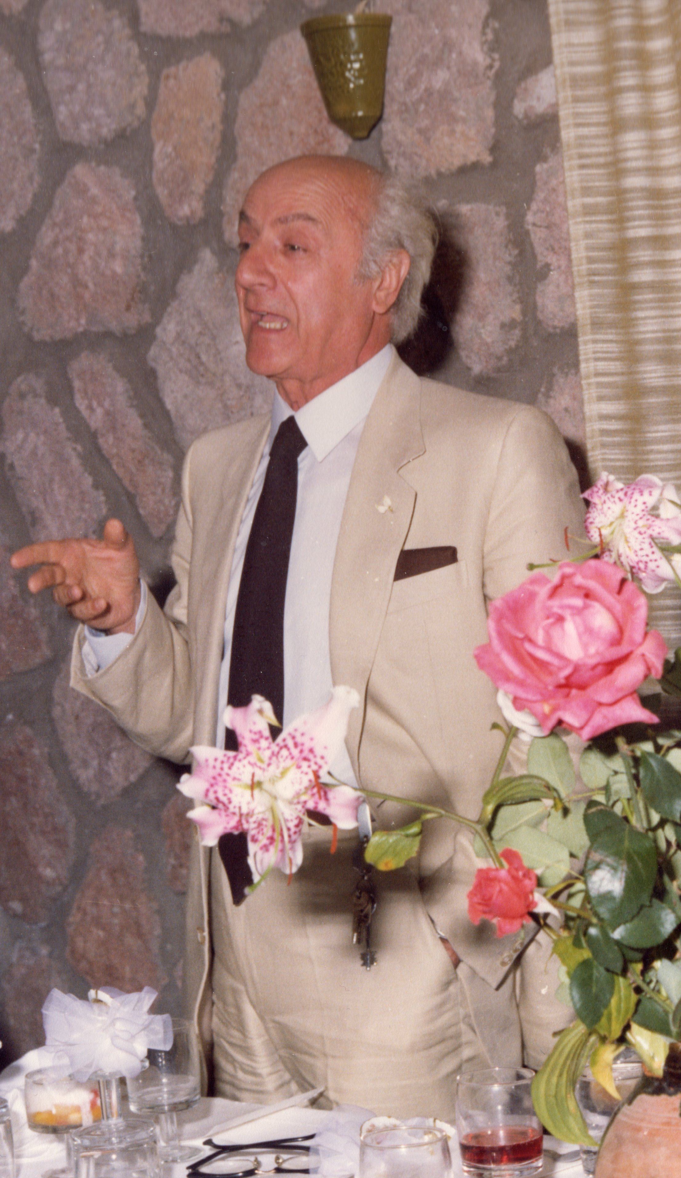 Rosario Scipio, scan of original photo owned by Rosario Saraconi